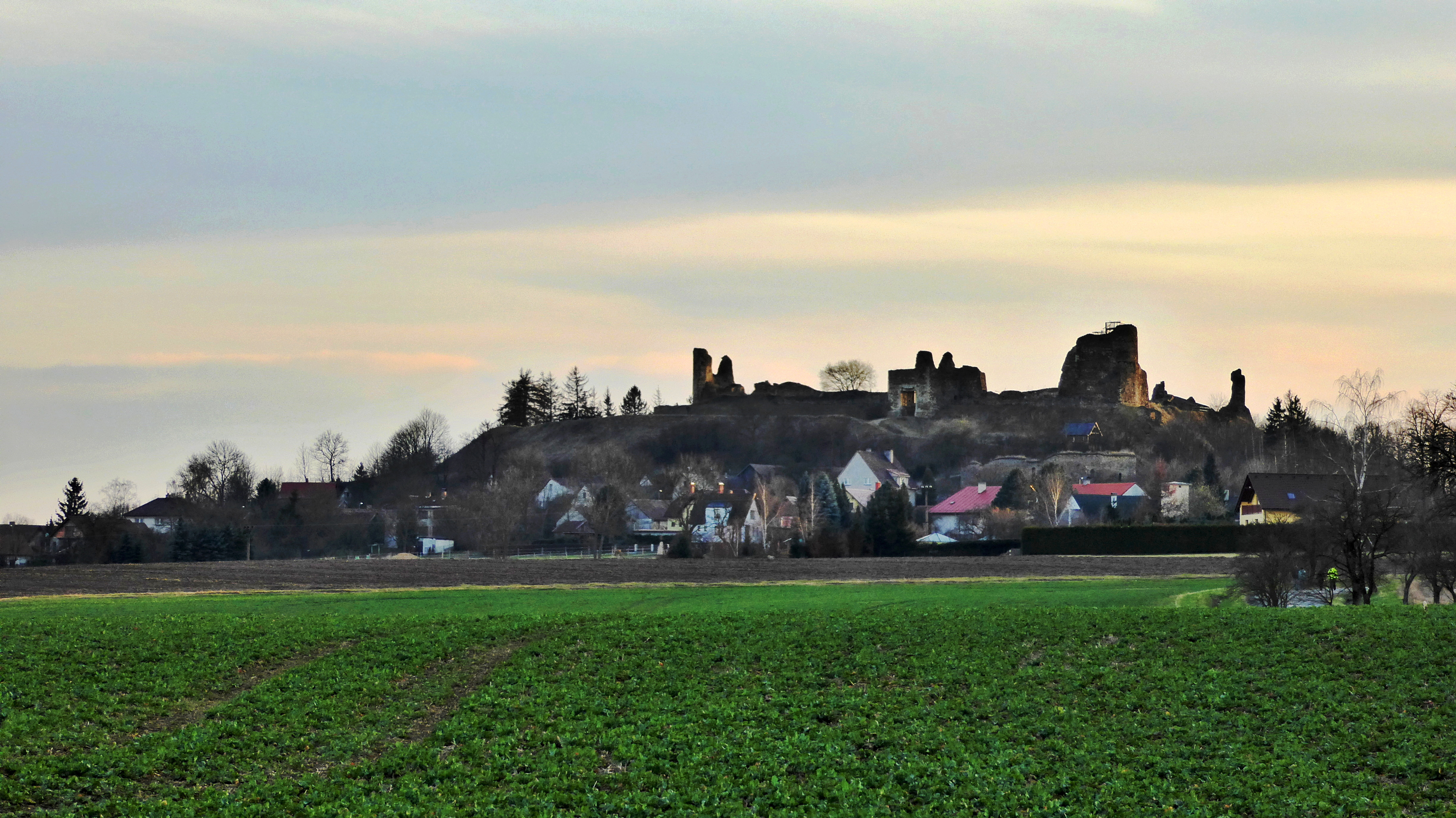 "Lichnice", castle ruin. View from "Rudov" in the spring early evening. Originally Lichtenberk Castle, later with of the Czech name Lichnice, lies on the Podhradí cadastral area in the Iron Mountains in the Chrudim district belonging to the Pardubice Region. The landscape of the Podhrad basins in the "Sečska" highlands, part of the geomorphological whole of the Železné hory. Note: Above the former castle tower, in the photo-shot on the right, see part of the observation platform of the lookout tower named Milada, according to the legend bound to the original castle. Photo location: Czechia, Pardubice Region, villages Podhradí